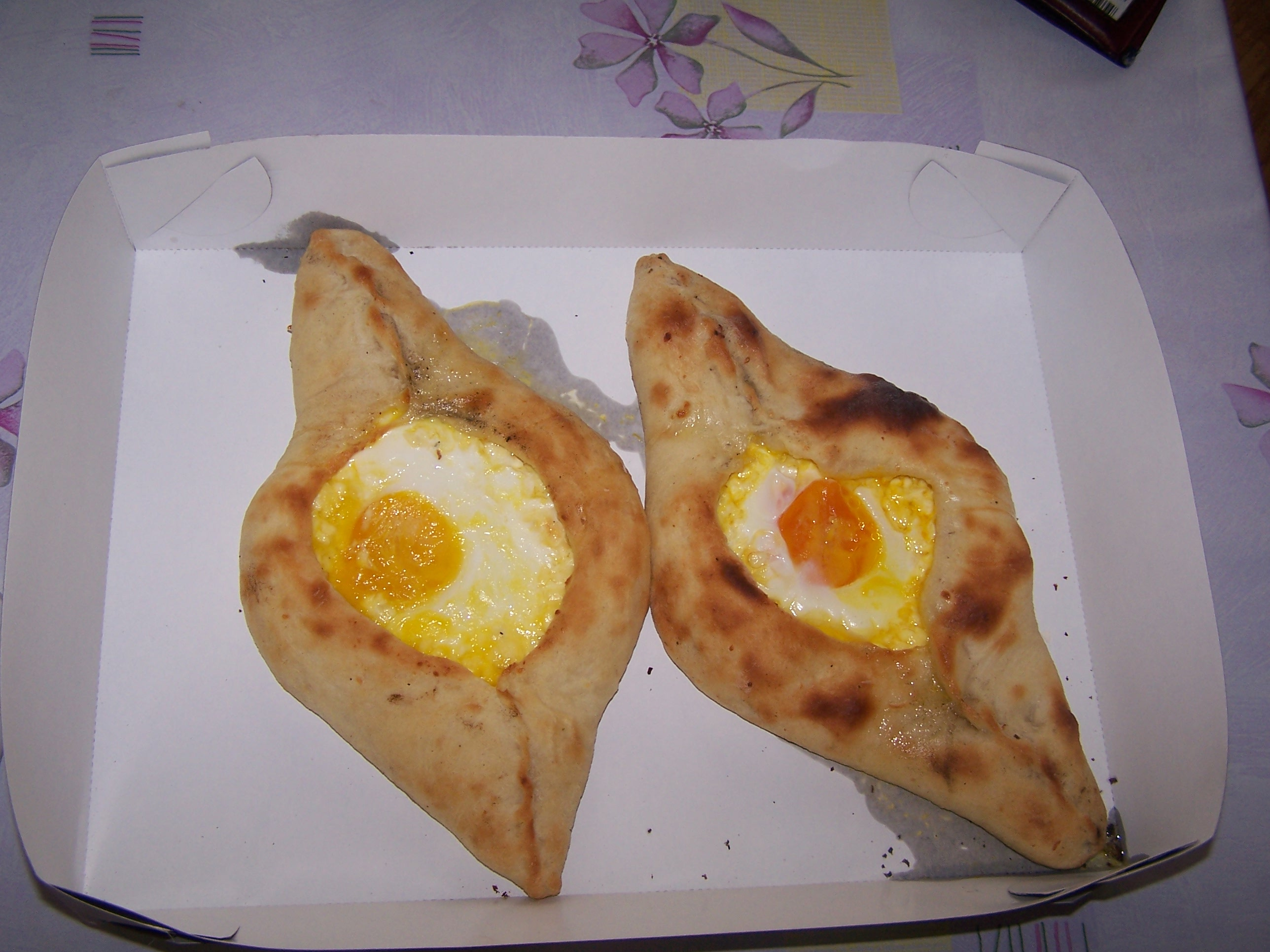 Adjaruli Khachapuri. Ingredients: Bread, butter, cheese, egg.